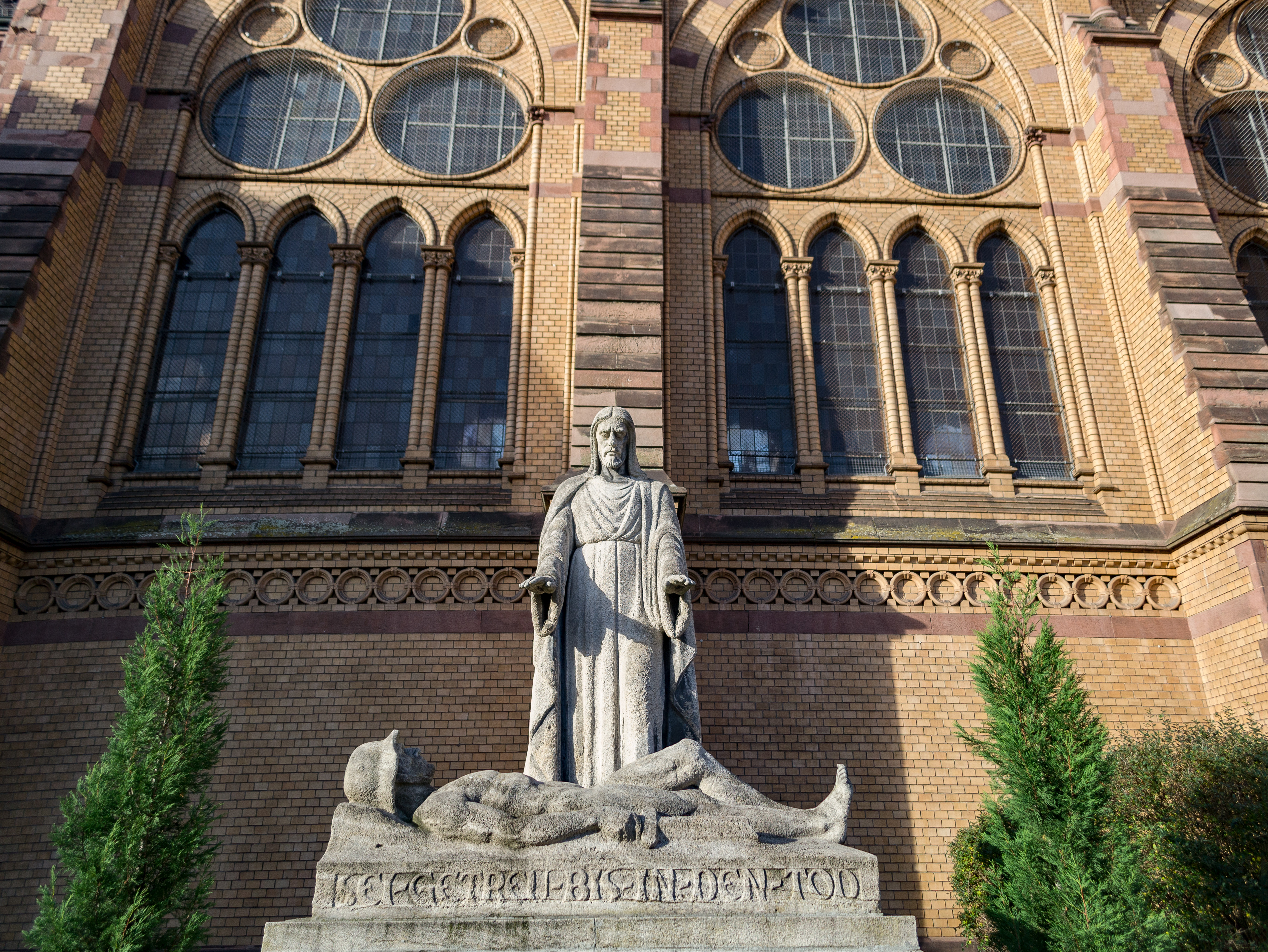 Monument to the fallen of World War I.